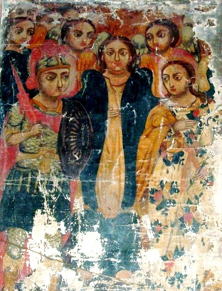 Assembly of the Thousand Angels Icon from Saint Andrew Church in Doltsa